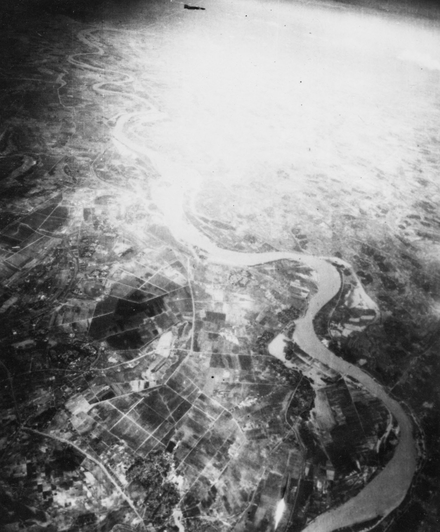 (A North Vietnamese S-75 Dvina (SA-2 Guideline) surface-to-air missile approaching a U.S. Air Force McDonnell RF-4C Phantom II aircraft (s/n 65-0882) from the 11th Tactical Reconnaissance Squadron on 12 August 1967 near Hanoi, North Vietnam. The missile detonated seconds later below the plane, forcing the crew to eject. Capts. Edwin Atterberry and Thomas Parrott were captured. Atterberry died in the hands of the North Vietnamese after an escape attempt and Parrott was released at the end of the war.